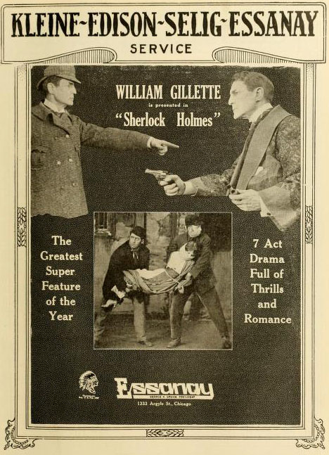 Advertisement in Moving Picture World for the American silent film Sherlock Holmes (1916).